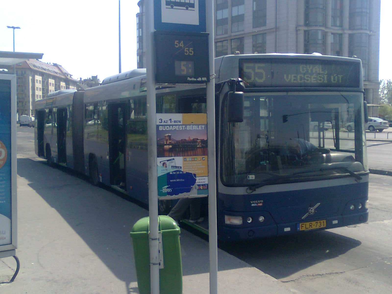 55 bus